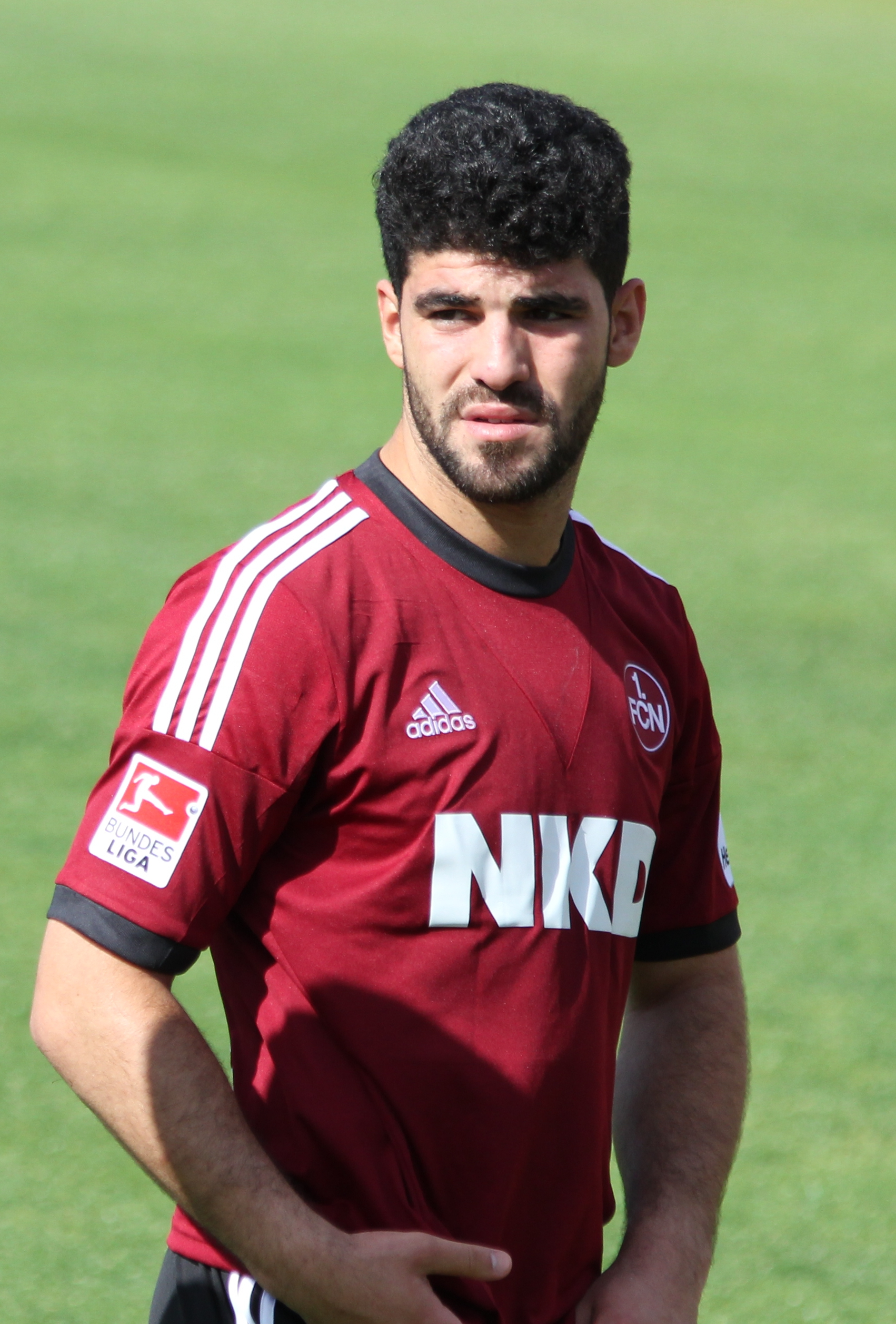 Muhammed Ildiz, football player for German side 1. FC Nürnberg, 2012/13 season, first training session